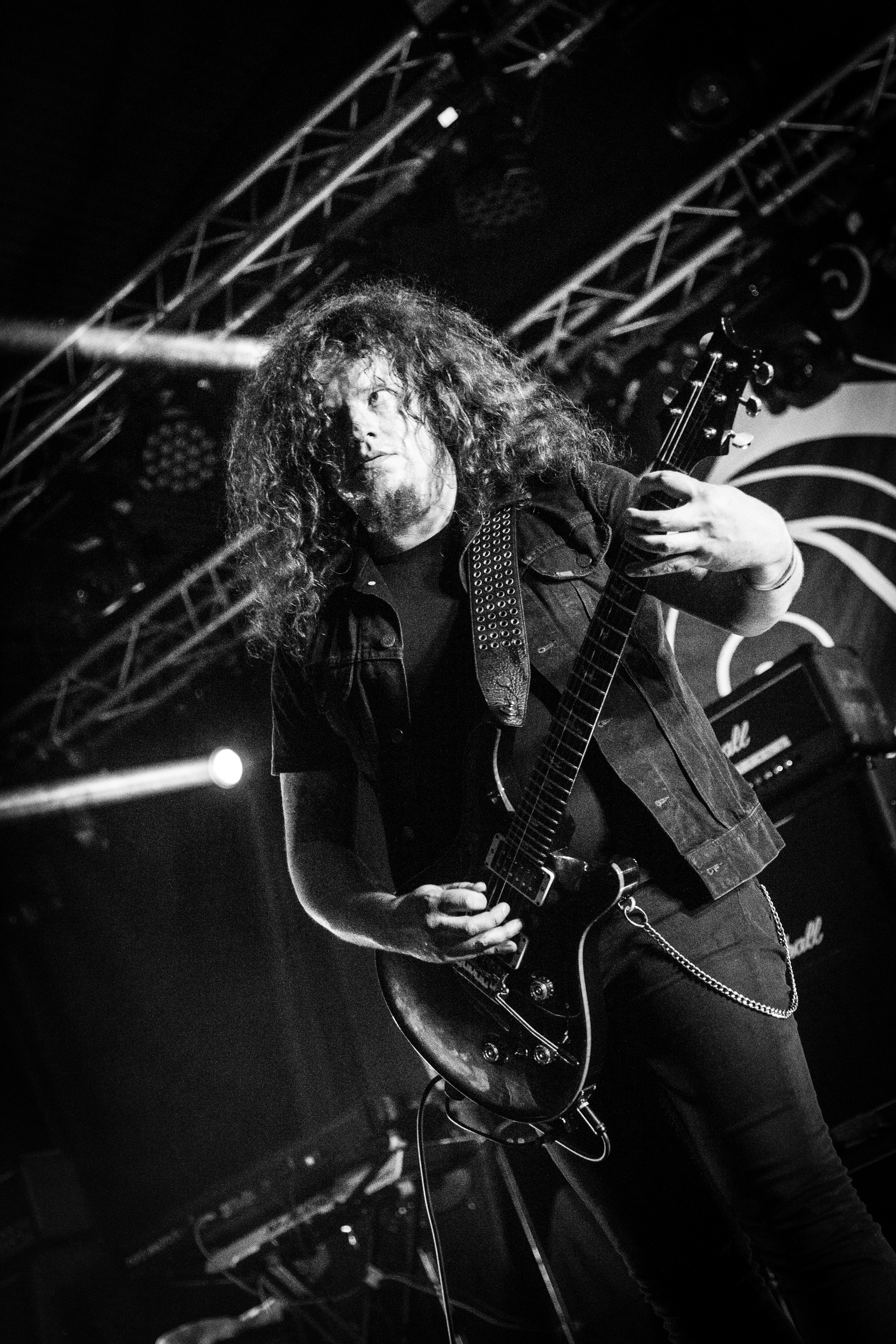 Opeth performing live at Eistnaflug 2016